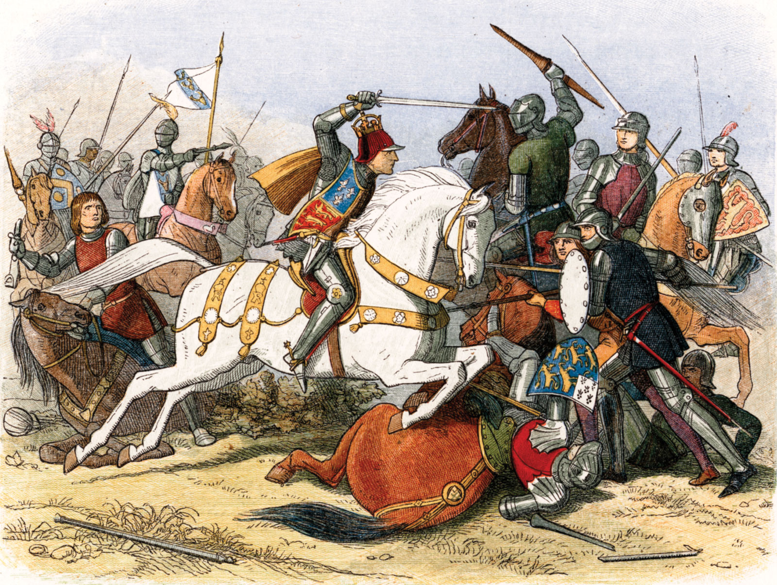 King Richard III at Bosworth Field. This engraving was published in: Doyle, James William Edmund (1864) "Richard III" in A Chronicle of England: B.C. 55 – A.D. 1485, London: Longman, Green, Longman, Roberts & Green, pp. p. 453 Retrieved on 12 November 2010.